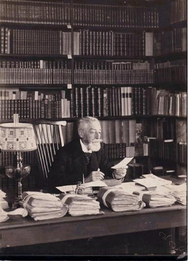 Charles Gailly de Taurines Charles Gailly de Taurines (3 décembre 1857 – 16 février 1941), est un historien et écrivain français.